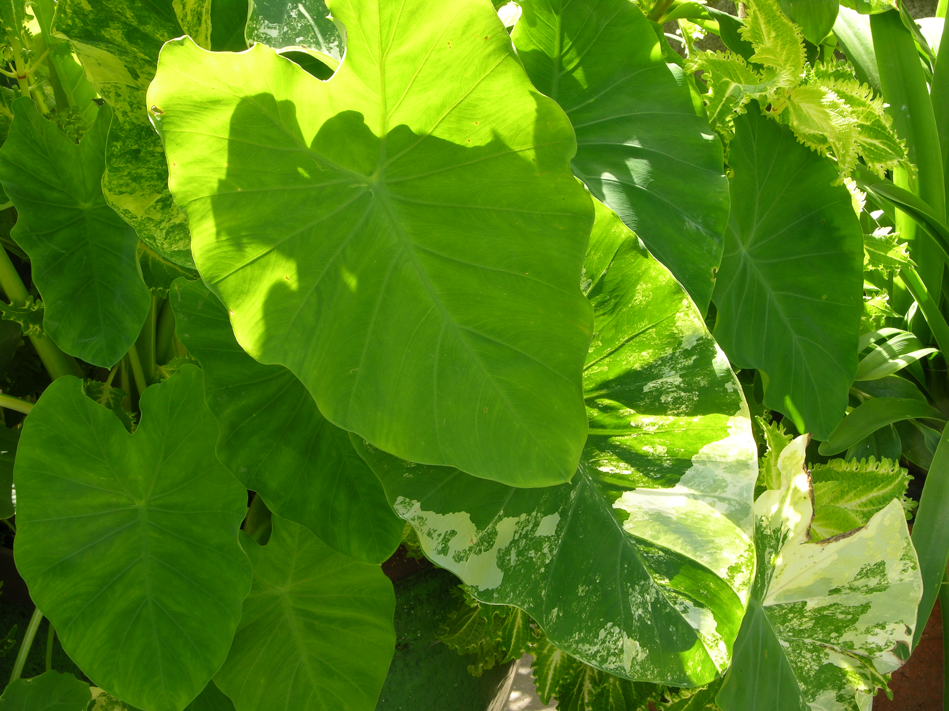 A picture of the leaves of the Elephant Ear (Colocasia esculenta 'Yellow Splash') plant. Photo taken at the Chanticleer Garden where it was identified.